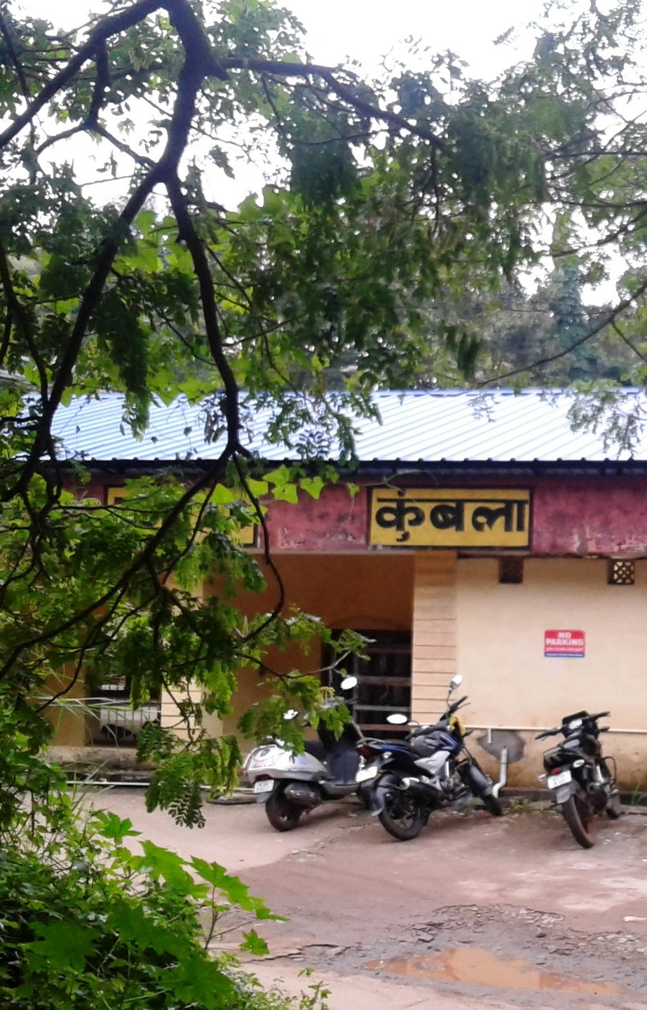 Kasaragod District, Kerala state, India. .